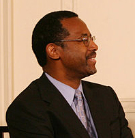 Dr. Benjamin Carson listens Thursday, June 19, 2008, as he is announced as a recipient of the 2008 Presidential Medal of Freedom, at ceremonies in the East Room of the White House.